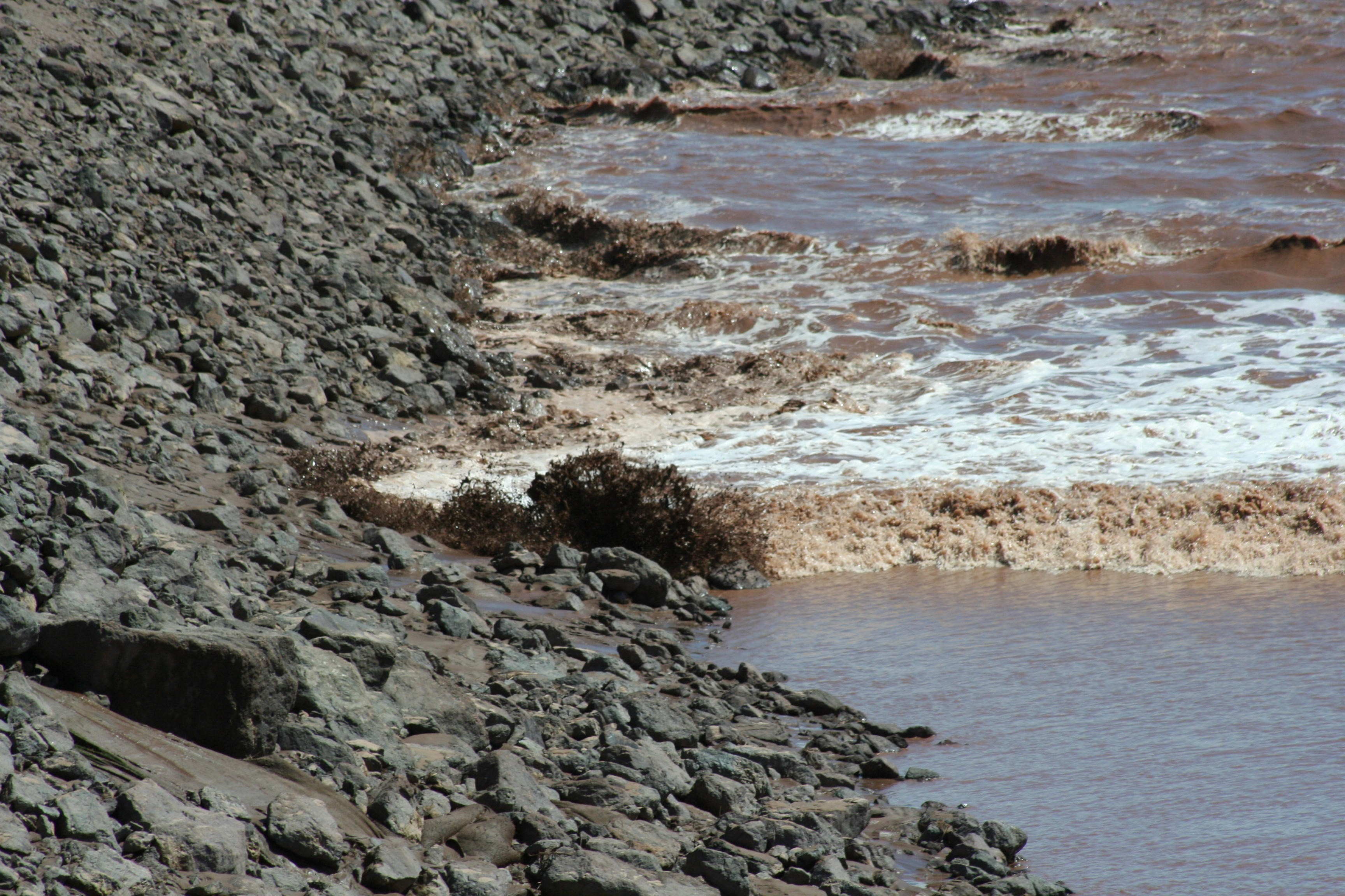 Detail of the tidal bore in the Petitcodiac River, showing the force.